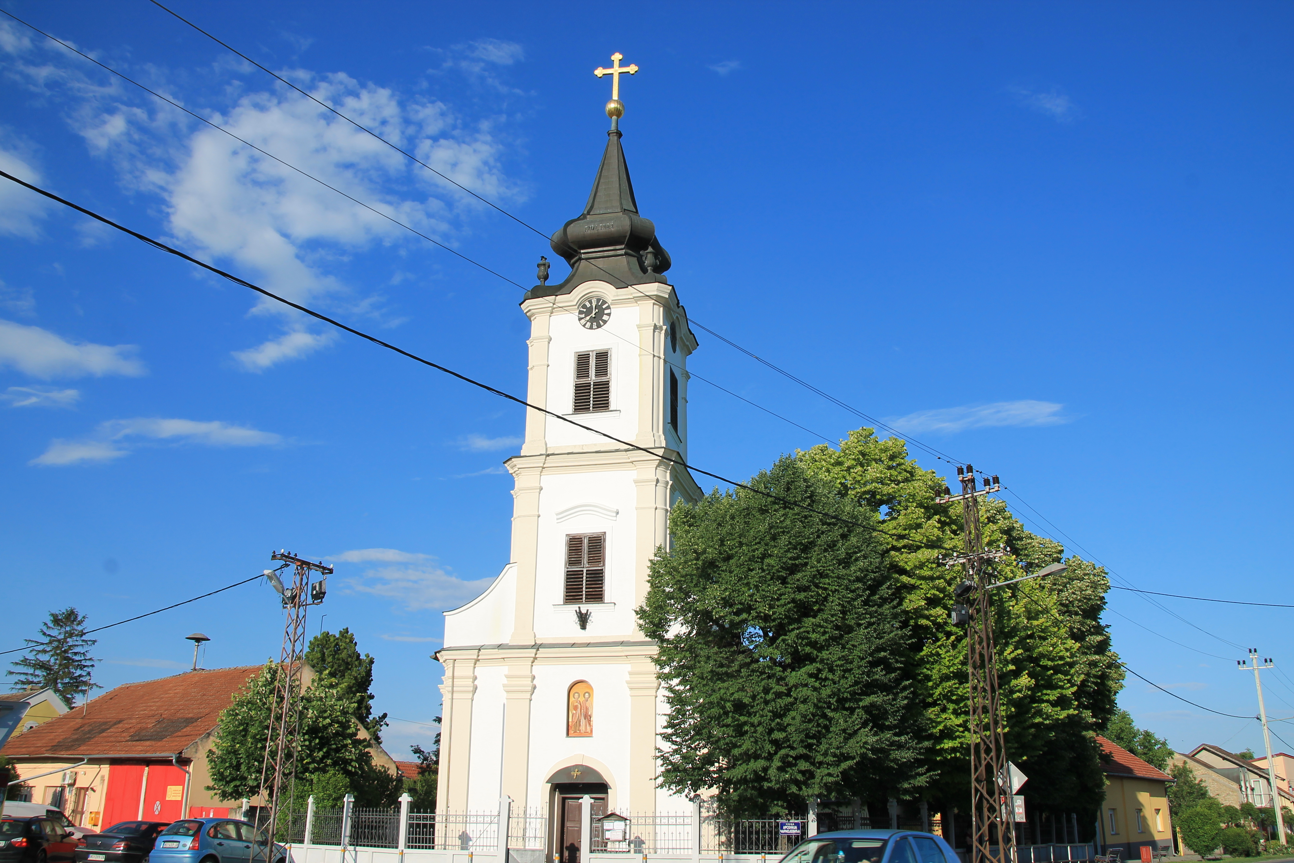 Saints Peter and Paul Church (Rumenka)